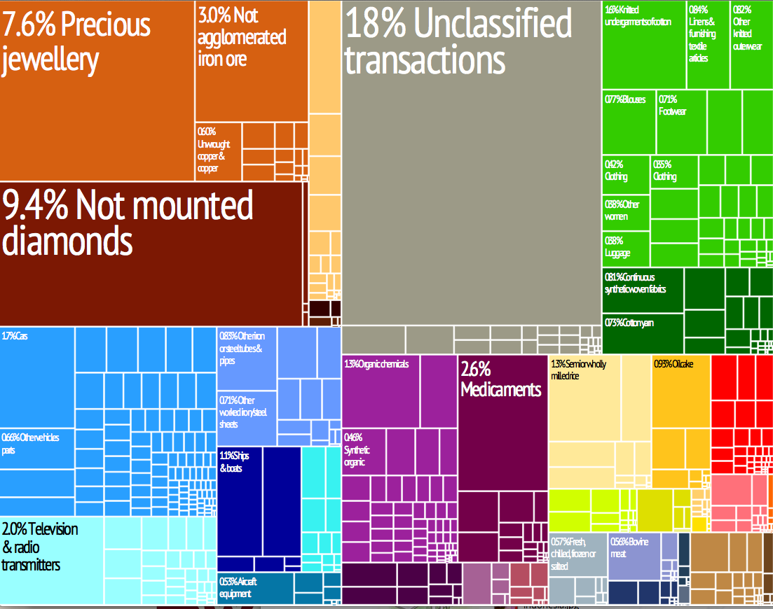 Export Trading Treemap. From MIT/Harvard Atlas of Economic Complexity